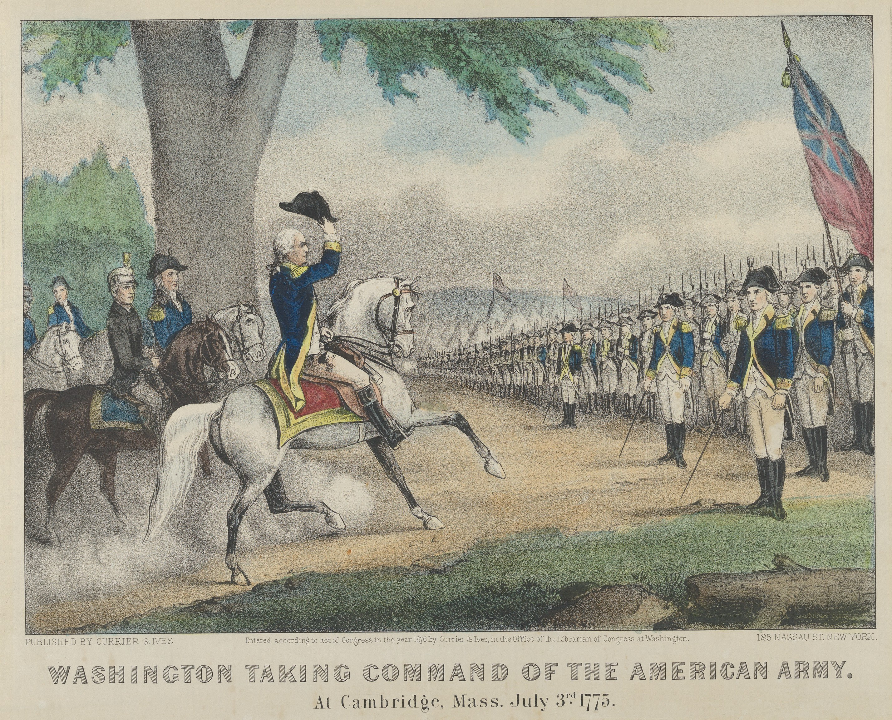 Print; Prints